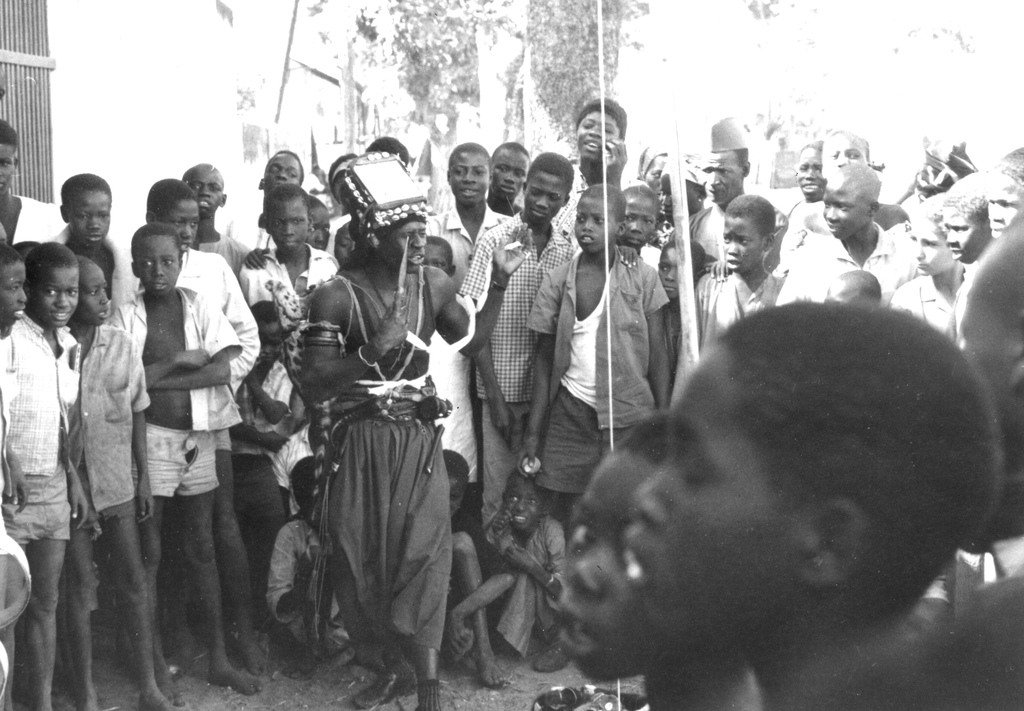 Touching the supernatural Photo taken in Kaolak, Senegal (West Africa) in November, 1967 (Best viewed large).